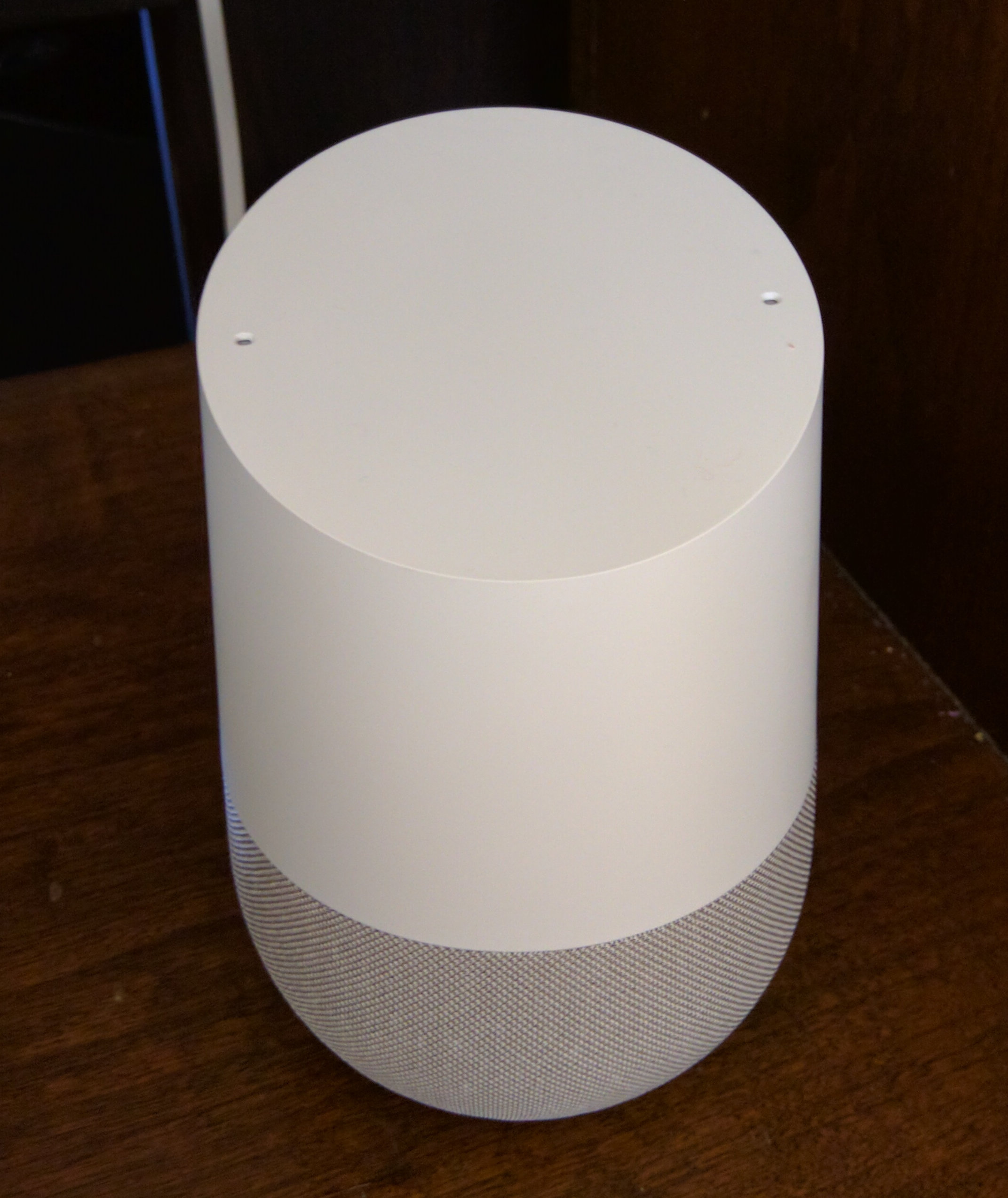 Google home AI assistant